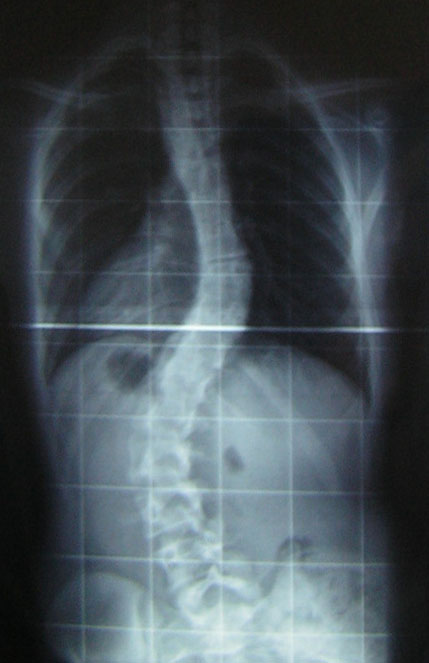 This is an posterior-to-anterior X-ray of a case of adolescent idiopathic scoliosis - specifically, my spine. There is a thoracic curve of 30° and a lumbar curve of 53° (Cobb angle - see scoliosis). This was taken at the Royal National Orthopaedic Hospital. The largest curve (53°) is of a magnitude typically near the lower surgery boundary, although many factors decide whether surgery is necessary on a scoliosis case.